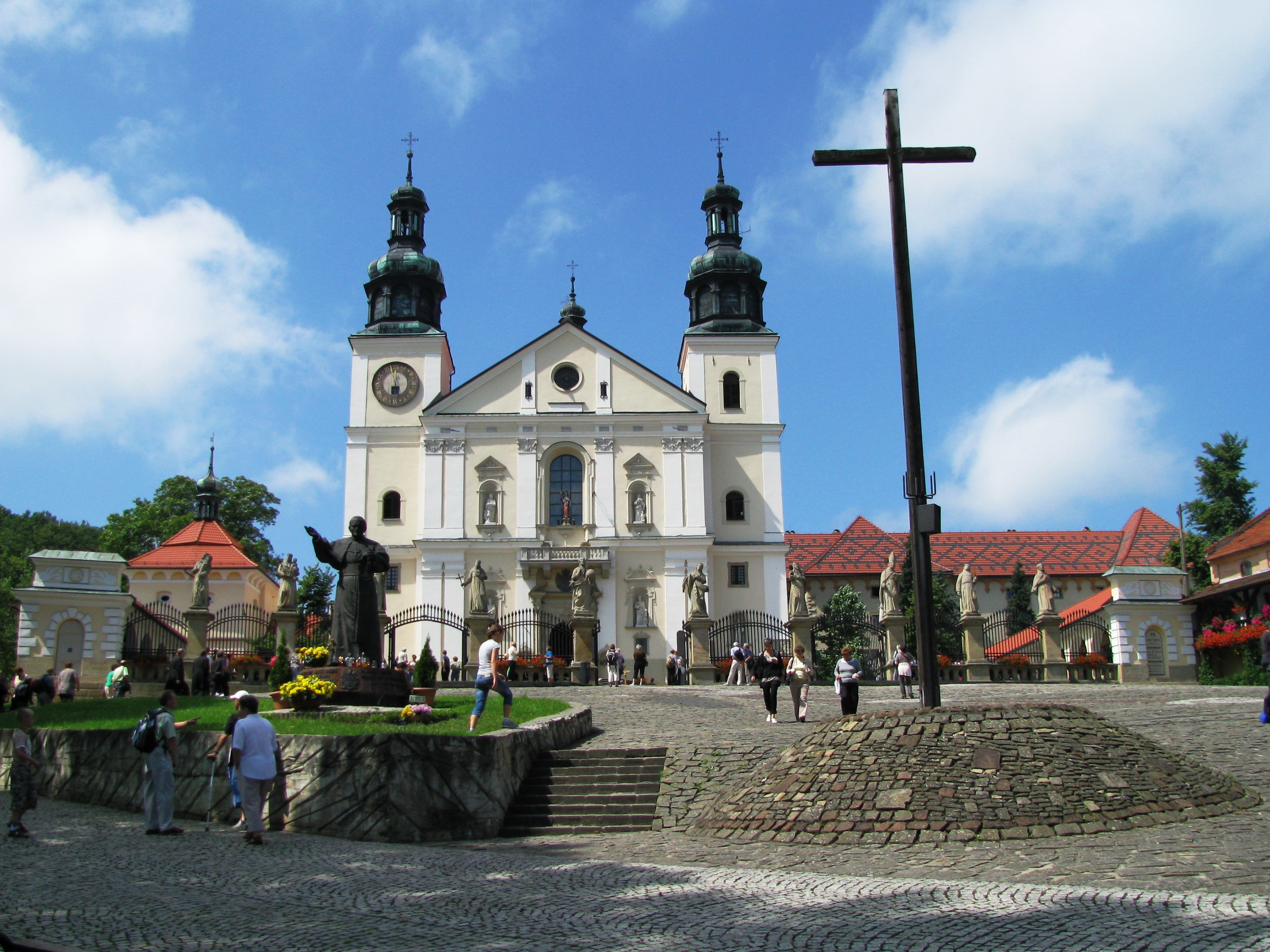 Approach to Church of Kalwaria Zebrzydowska Park Religious Sanctuary. The Scotch Mist Gallery contains many photographs of historic buildings, monuments and memorials of Poland.